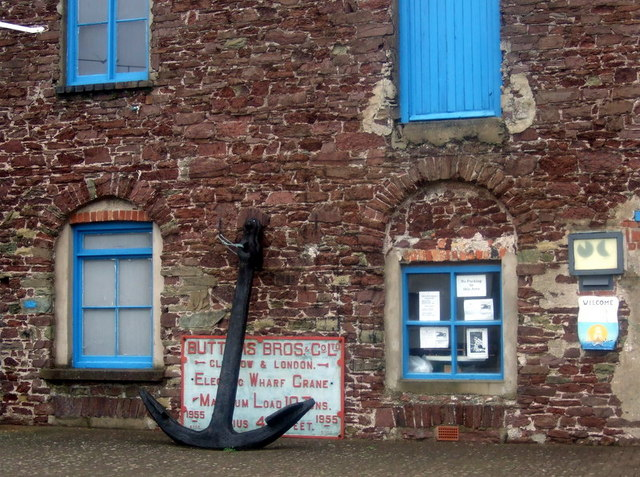 Milford Haven museum frontage An anchor and an old harbour notice adorn the exterior of the museum which is housed in a warehouse built in 1797 for the storage of whale oil awaiting transhipment for sale in London. The museum has a mass of information about the history of the town in particular the whaling and fishing trades, the docks in wartime and the petroleum oil industry.